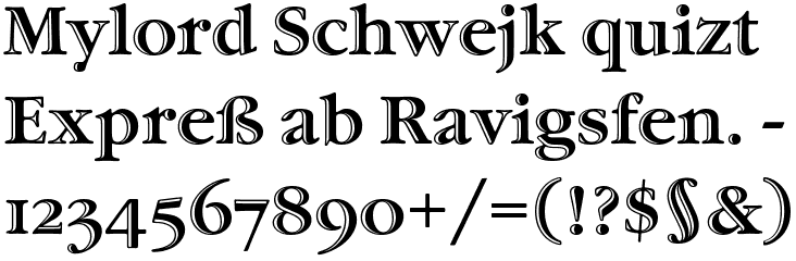 Typeface sample: Garamond Handtooled OsF from Linotype Collection